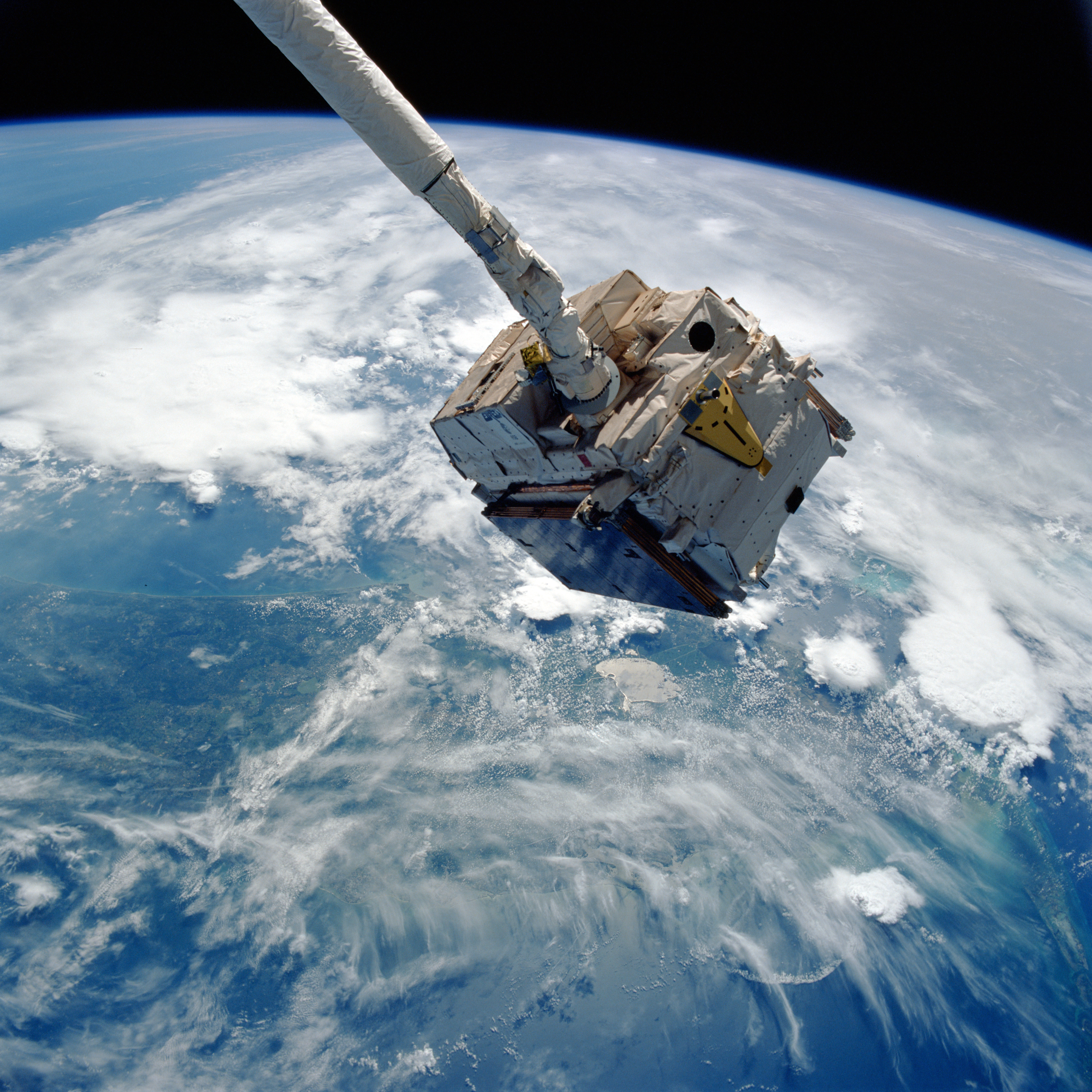 During STS-57, the European Retrievable Carrier (EURECA) is grappled by Endeavour's, Orbiter Vehicle (OV) 105's, remote manipulator system (RMS) end effector and is held in transfer to retrieval orbit before being stowed in the payload bay (PLB) for return to Earth. The southern two-thirds of the state of Florida, part of the Gulf of Mexico, and clouds over the Atlantic Ocean form the backdrop.